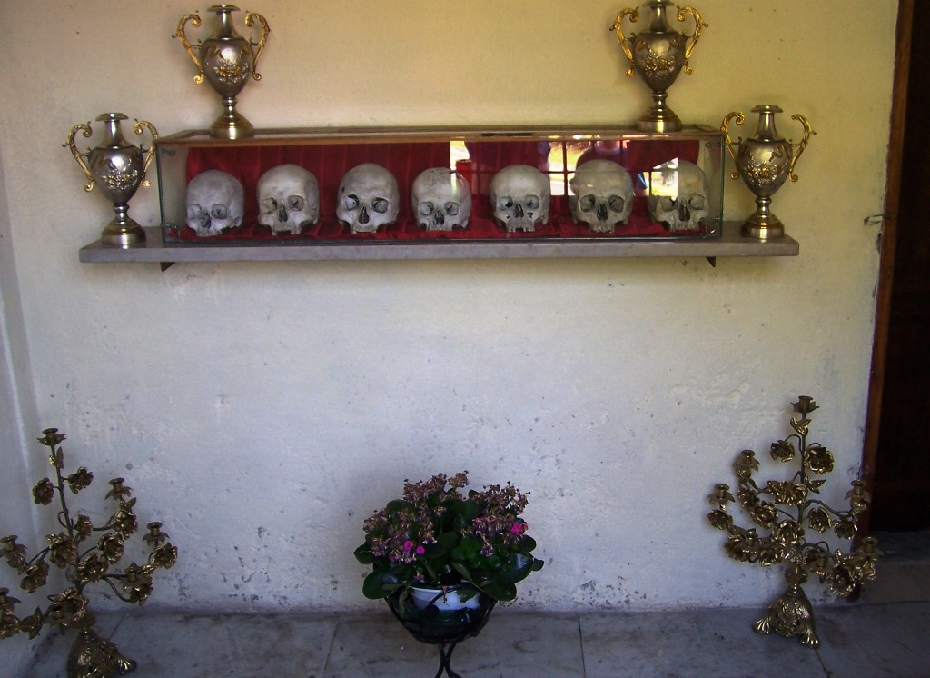 Pieve - Skulls in St Mary in silvis, Pisogne, Val Camonica